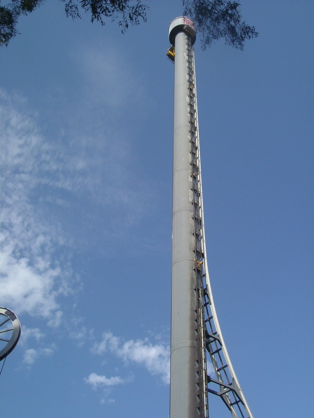 The Tower of Terror at Dreamworld. Photo taken from near the entrance to the Giant Drop.